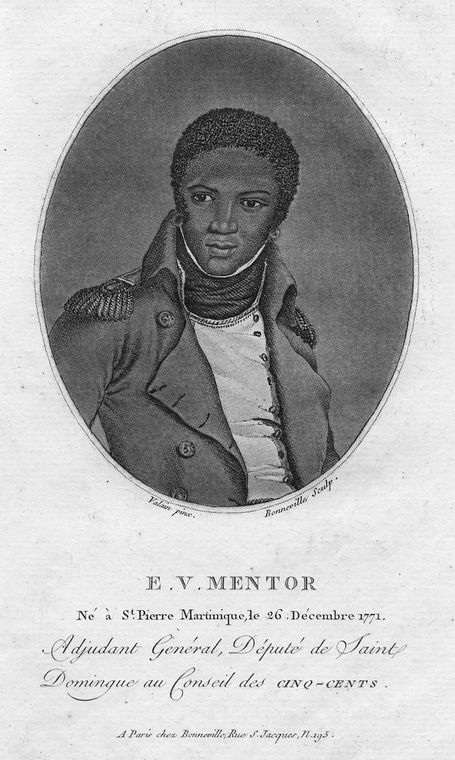 Portrait of Étienne Mentor (1771-1804). Originally published in Portraits des personnages celebres de la Revolution, v. 4 (Paris: 1802).